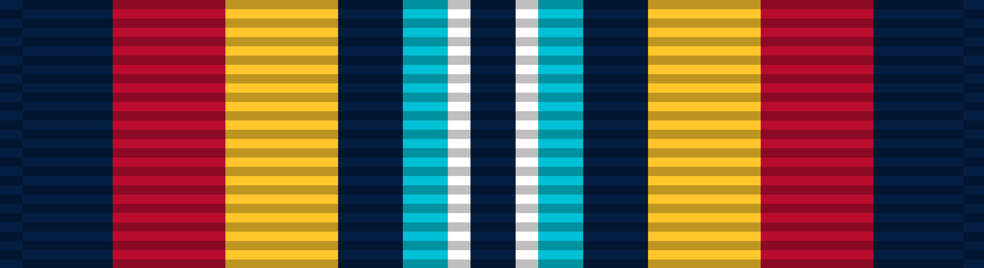 NOAA Sea Service Deployment Ribbon